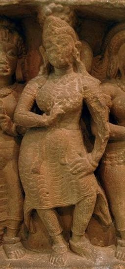 Plaque depicting Dance and Music group, Gupta Empire, 320 CE–550 CE. New Delhi Museum